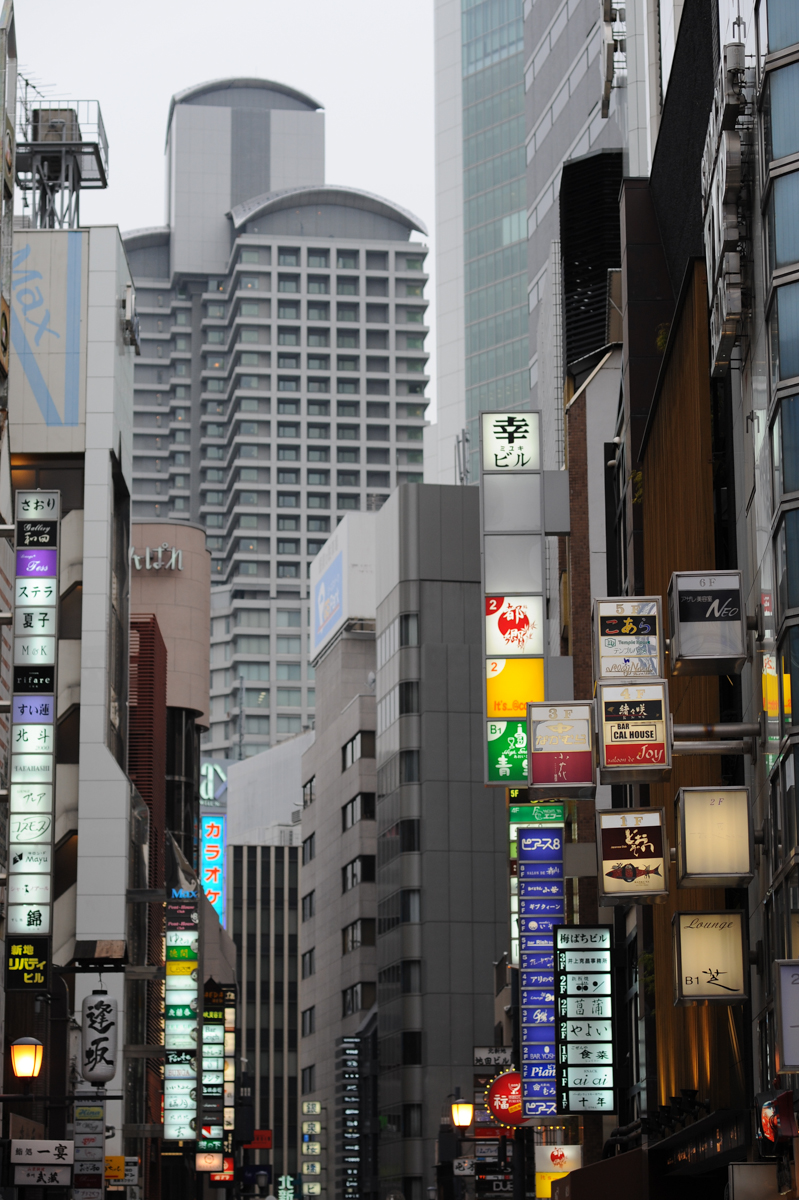 Central Osaka, Kita district. Osaka, Kansai region, Island of Honshu, Japan